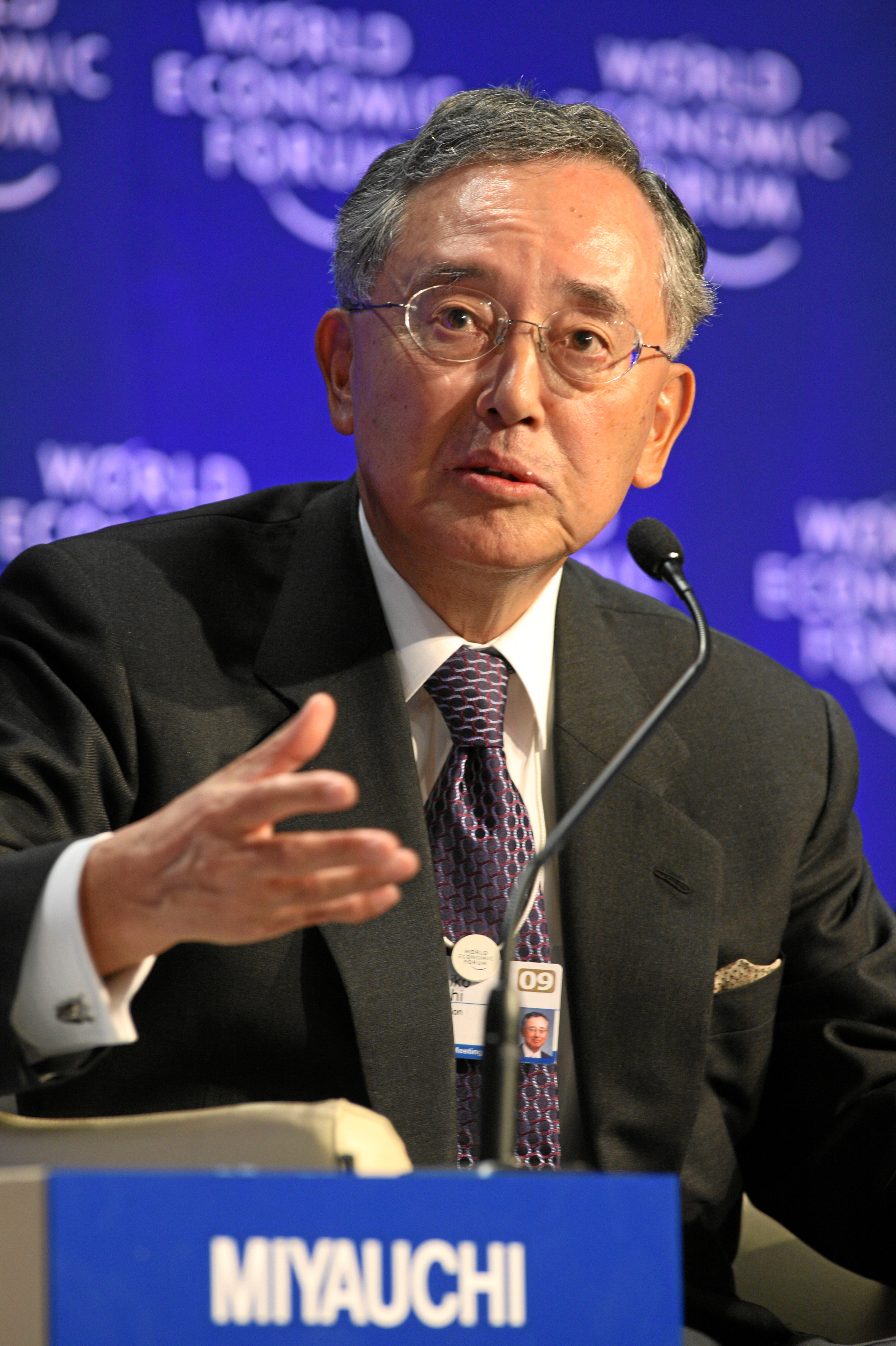 Yoshihiko Miyauchi, Chairman and Chief Executive Officer of Orix Corporation, spoke about "Rebooting the Global Economy" at the World Economic Forum Annual Meeting in Davos Municipality, Graubünden Canton on January 31, 2009.